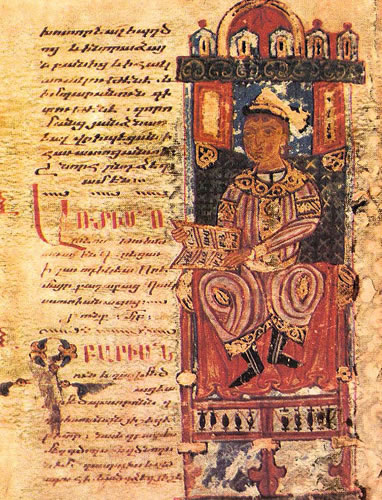 Armenian miniature from Artsakh, 13th century. Matenadaran item No. 155